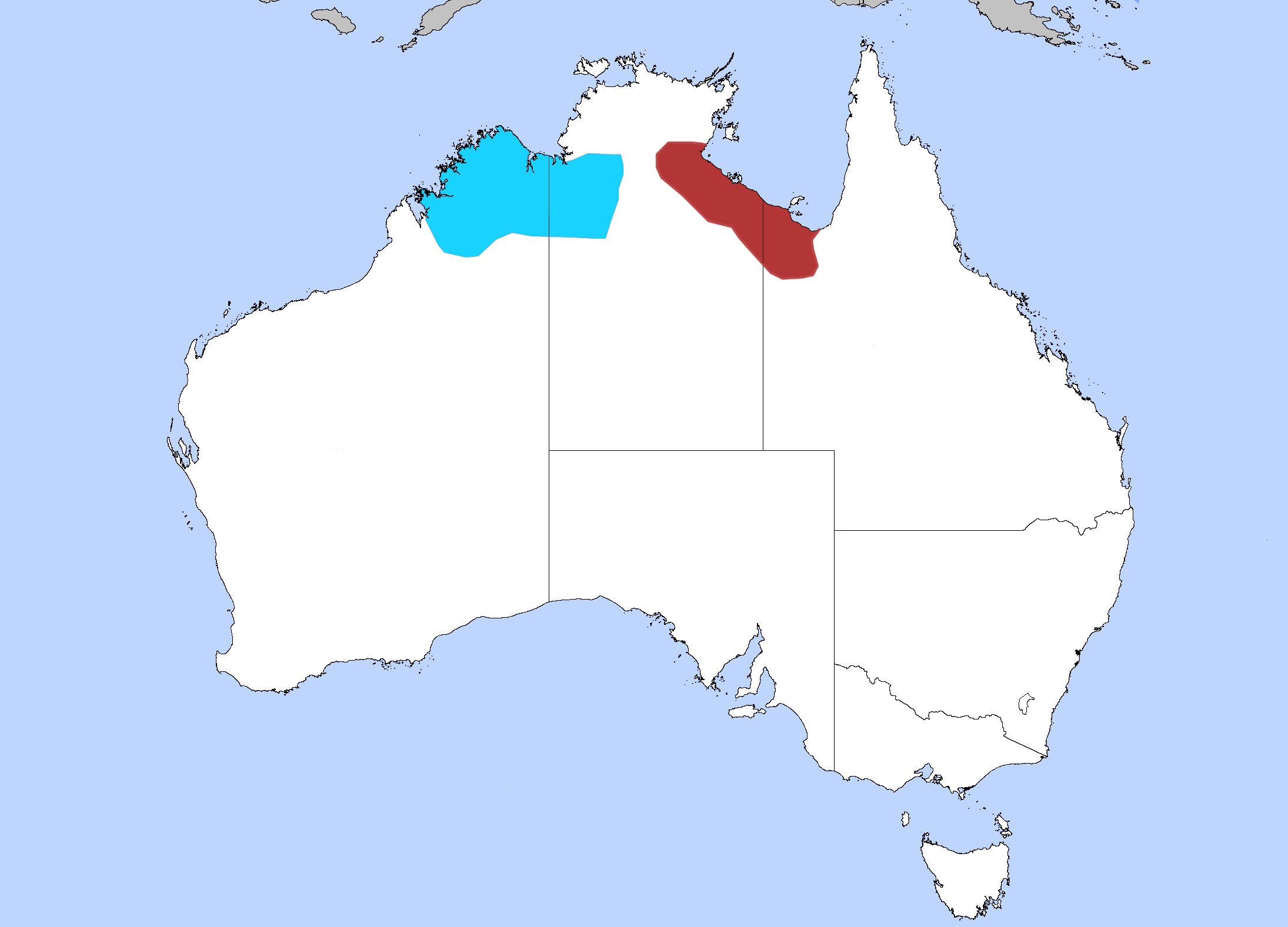 The Distribution of the Purple-crowned Fairy-Wren